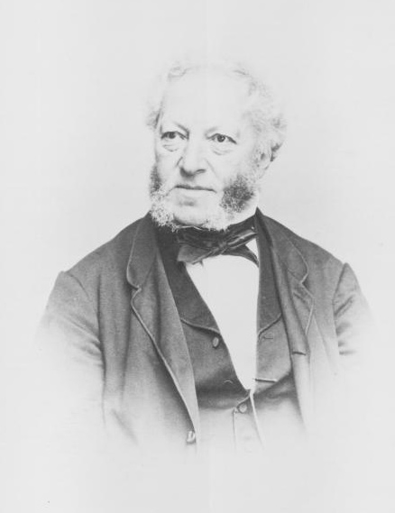 The German pianist, composer and teacher Ignaz Moscheles (1794—1870)